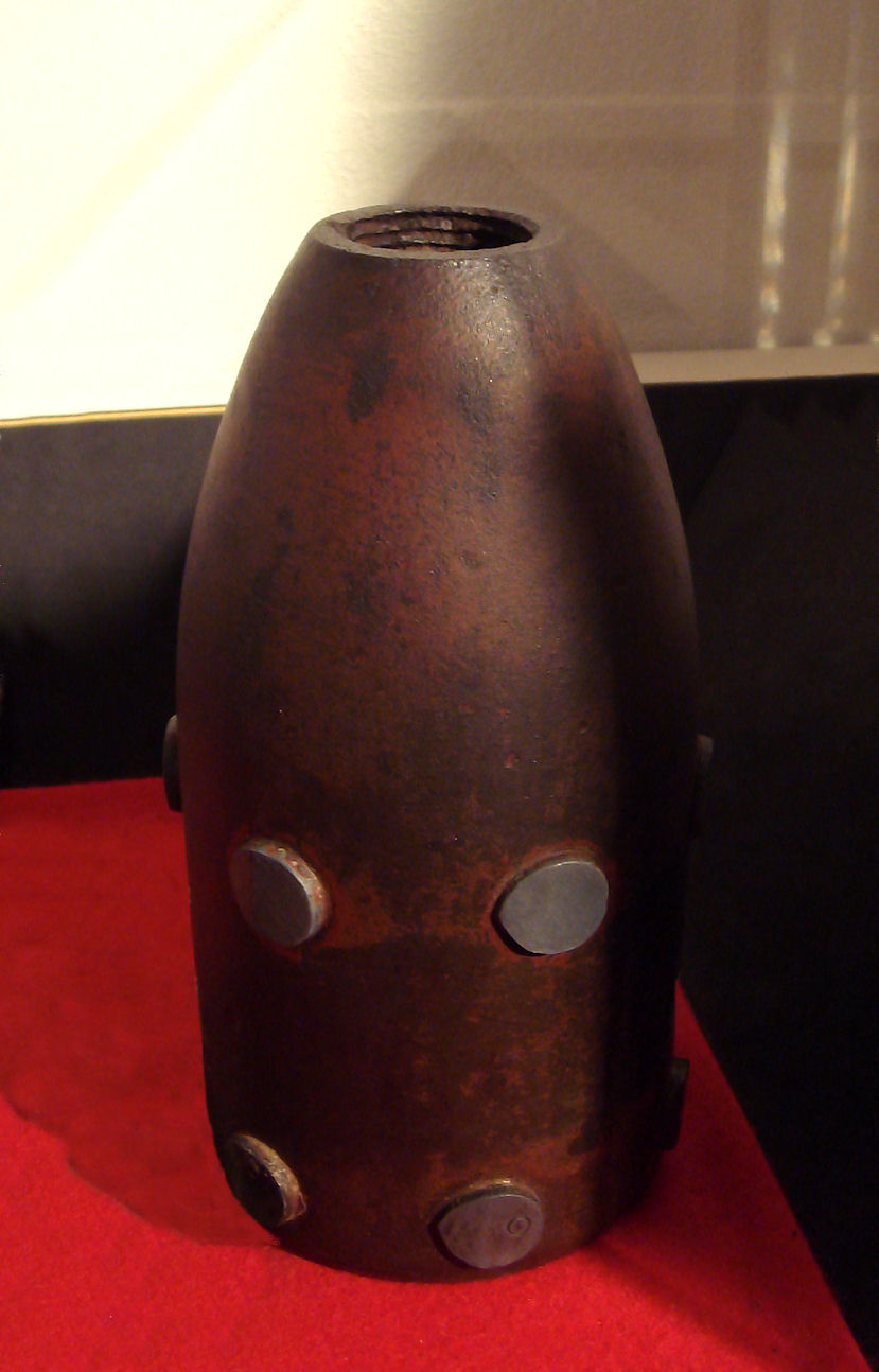 Japanese shell, used during the Boshin War